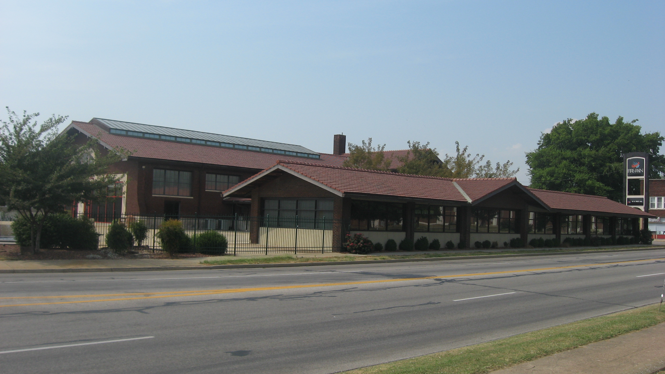 Front and southeastern side of the Evansville Municipal Market, located at 40 N. First Avenue in Evansville, Indiana, United States. Built in 1916, it is listed on the National Register of Historic Places.